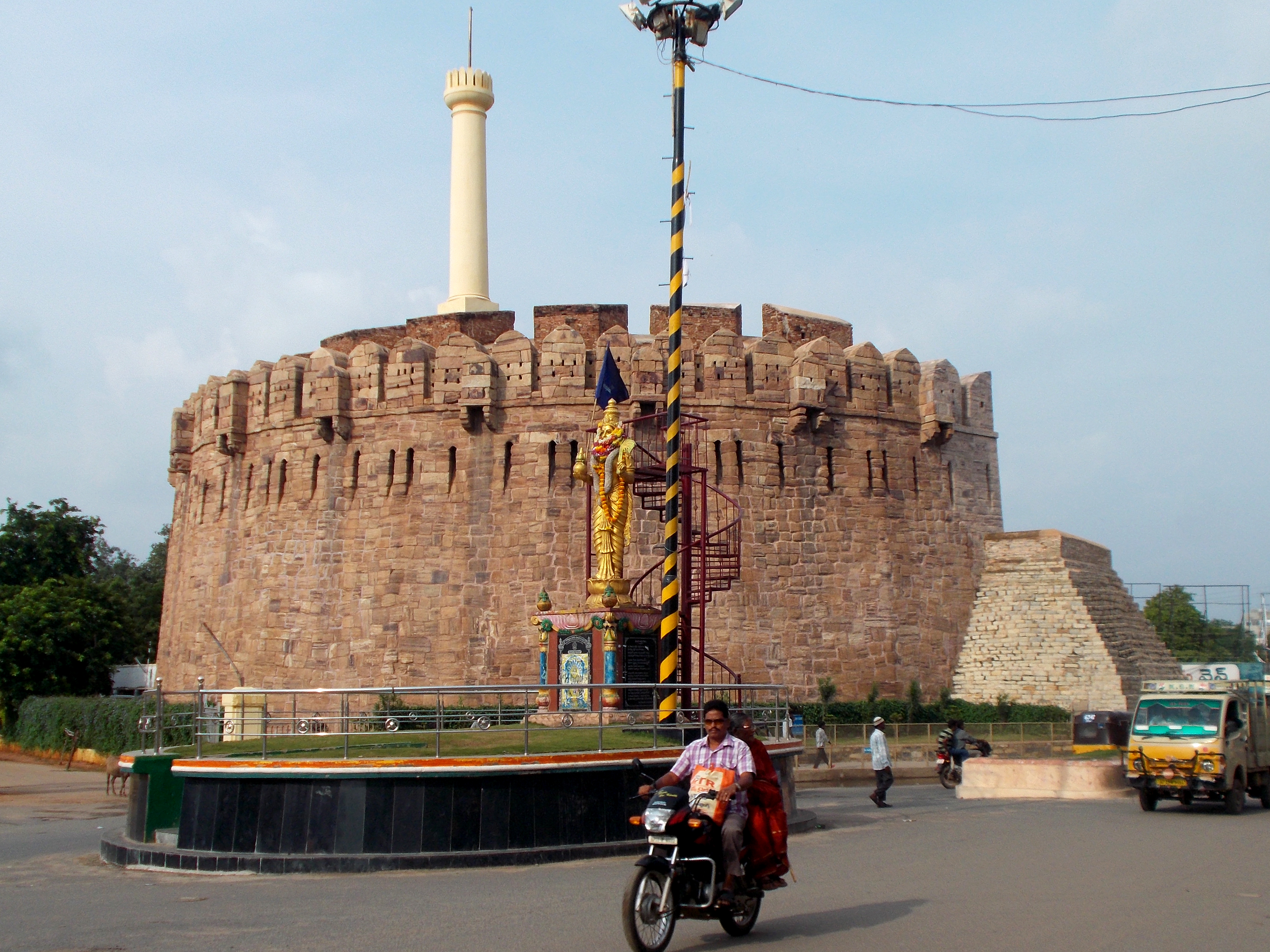 Telugu Talli Statue with Kondareddy Buruju as background